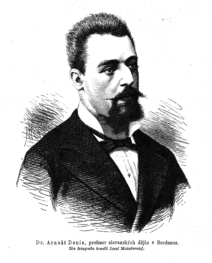 Portrait of Ernest Denis (1849-1921), French historian, professor of Sorbonne and expert in Czech history.